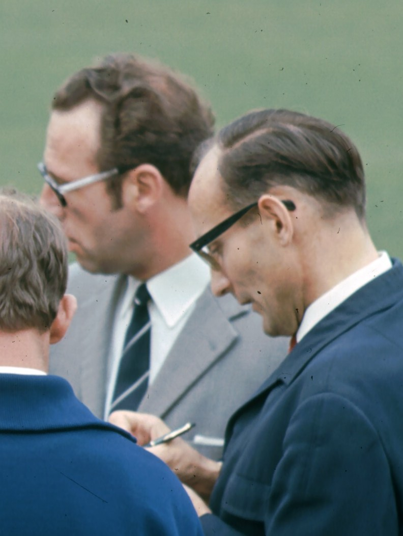 Heinz Papenhoff (center) and Hans Gappa (right)